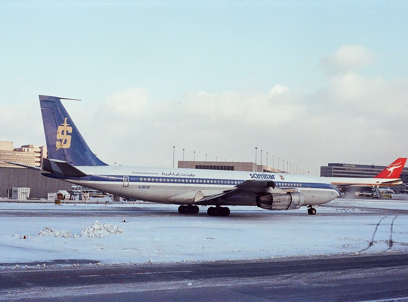 Boeing 707-321C of Scimitar Airlines at FRA (Flughafen Frankfurt) 12.1.1979. This aircraft was damaged beyond repair as 5N-MAS with Trans-Air Service on 31.3.1992 in an emergency landing at Istres aerodrome (France).